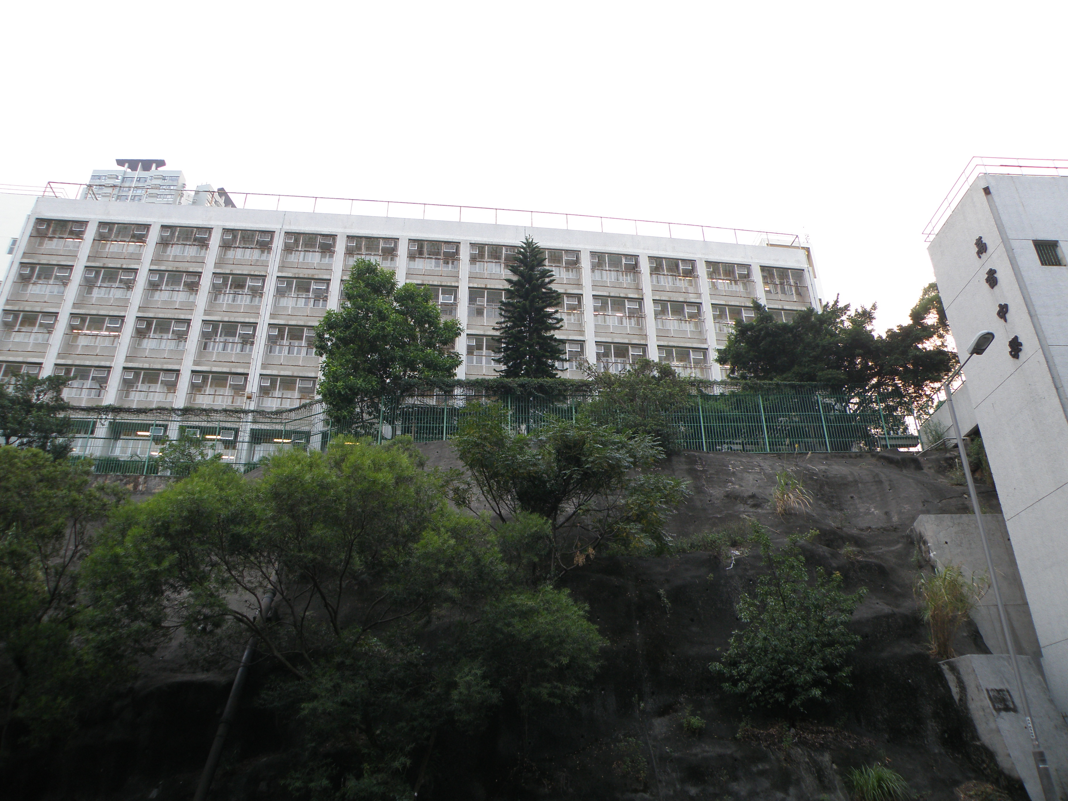 Ko Lui Secondary School in Kwun Tong, Hong Kong.